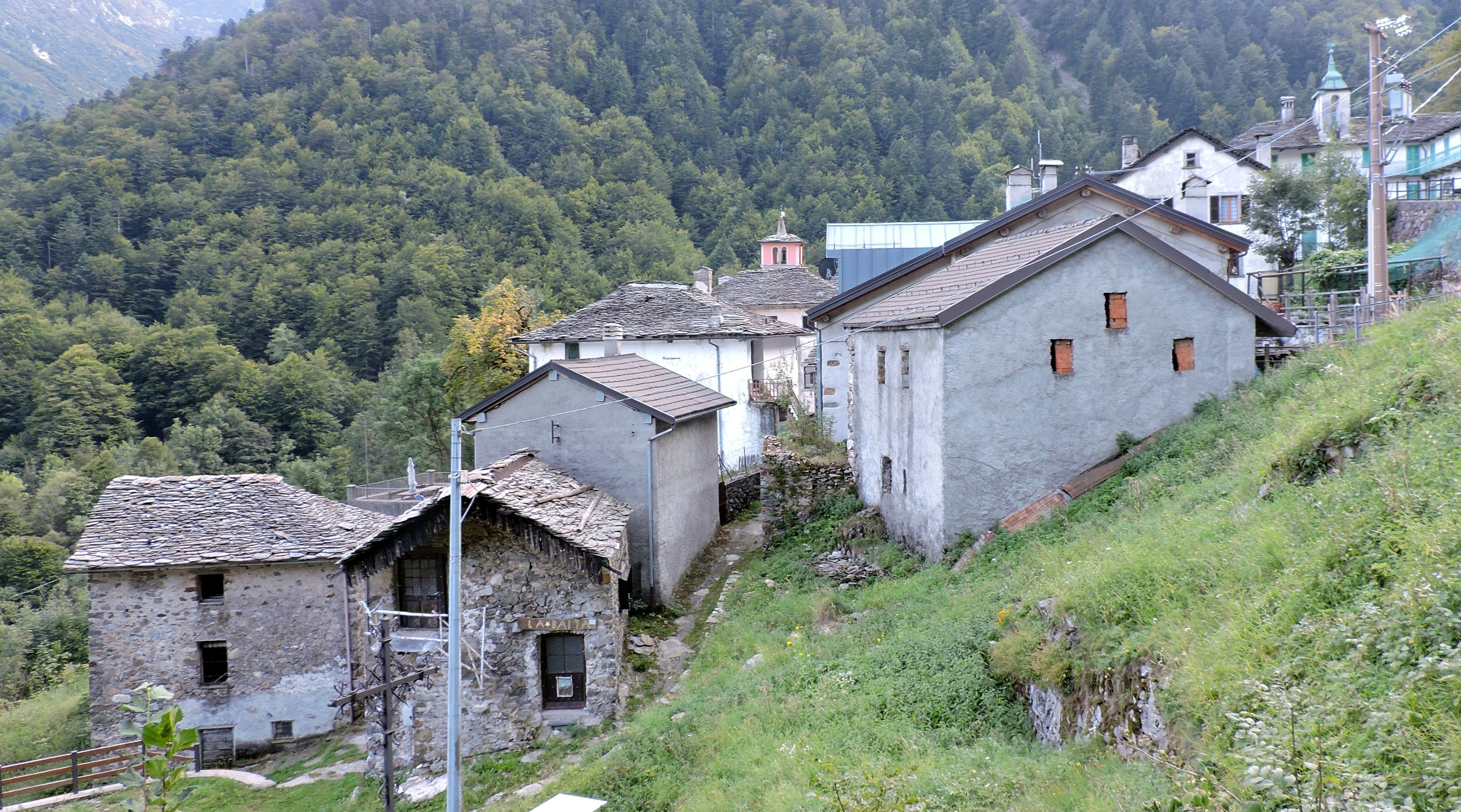 Piana di Forno (Valstrona, Italy): panorama